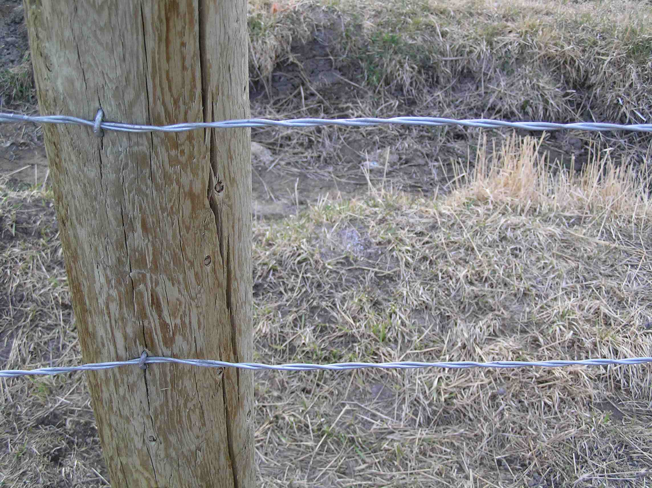 Closeup of a smooth wire fence without barbs